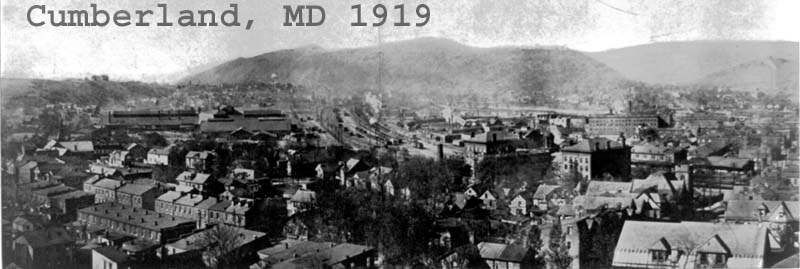 Panoramic View of Cumberland, Maryland, United States.